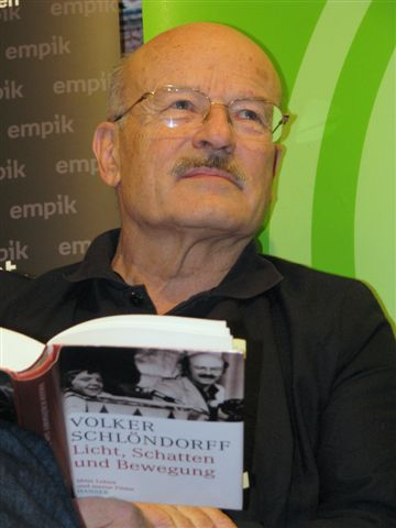 Volker Schlöndorff